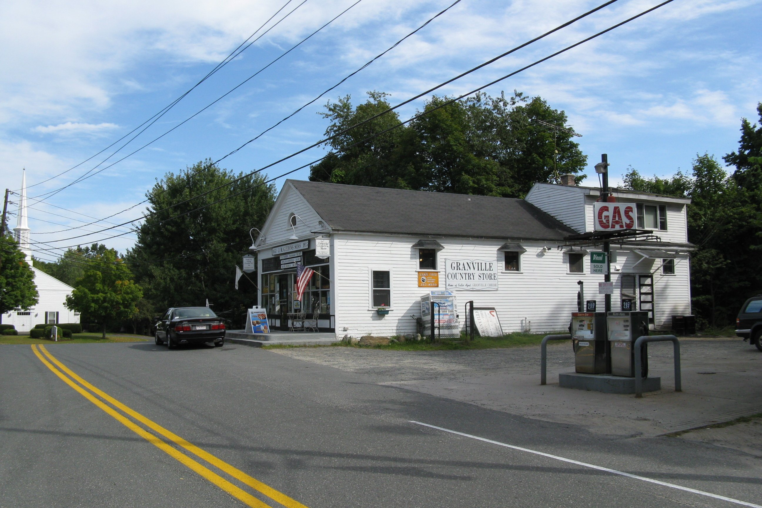 Granville Country Store, Granville Massachusetts